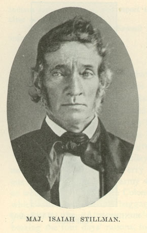 Cavalry Major Isaiah Stillman (1793–15 April 1861) led Illinois militia in the first armed confrontation of the Black Hawk War against Black Hawk's Sauk Indian Band; their flight resulted in the event being called the Battle of Stillman's Run